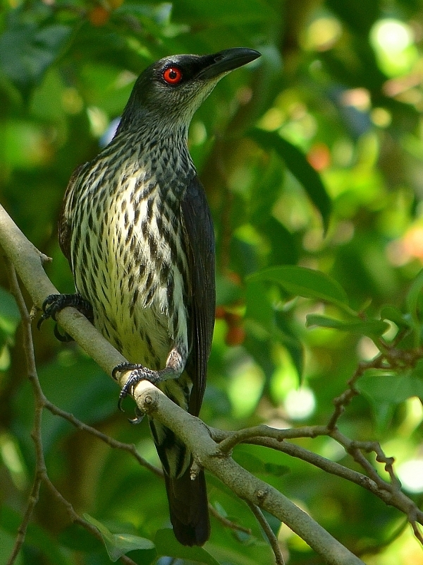 An immature of Asian Glossy Starling. Manado, North SulawesiBahasa Indonesia: Inividu remaja Perling kumbang. Manado, Sulawesi Utara